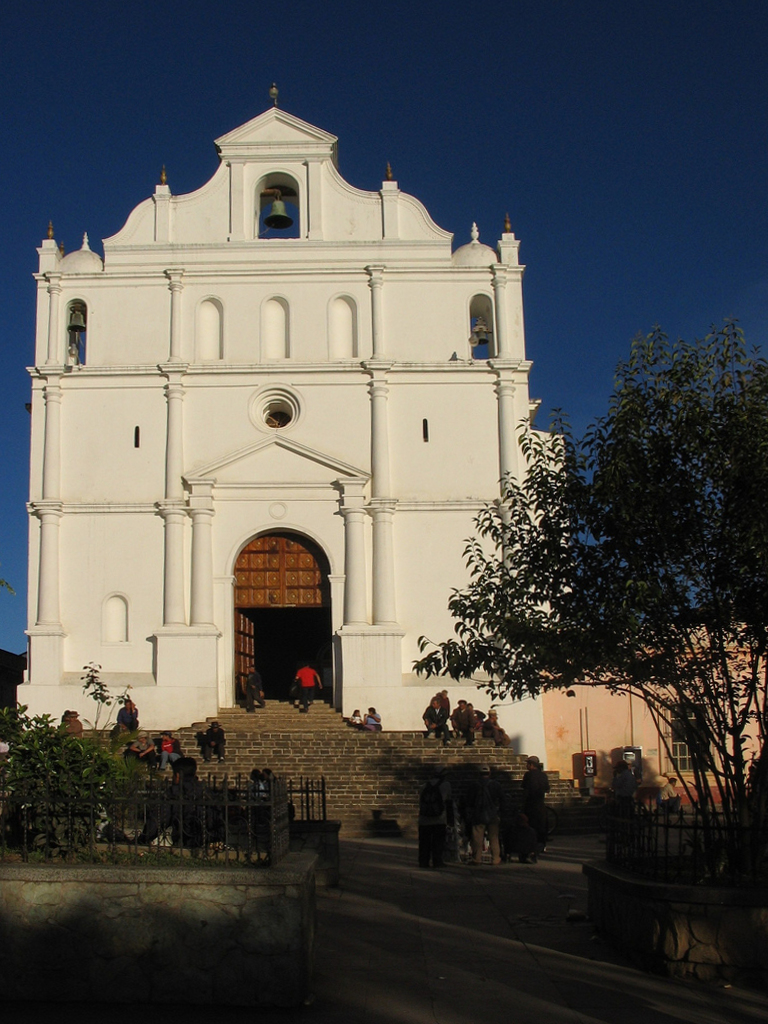 Cathedral of Santa Cruz del Quiché, Guatemala (December 2007)